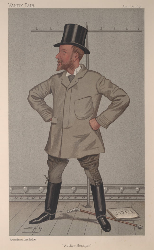 Men of the Day No.535: Caricature of Mr HA Jones. Caption reads: "Author-Manager"